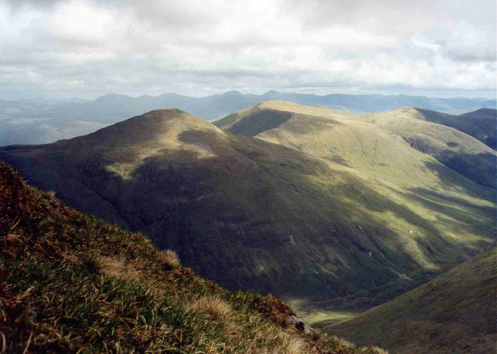 Personal picture taken by Mick Knapton